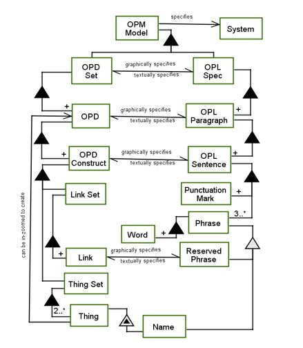 OPM Model